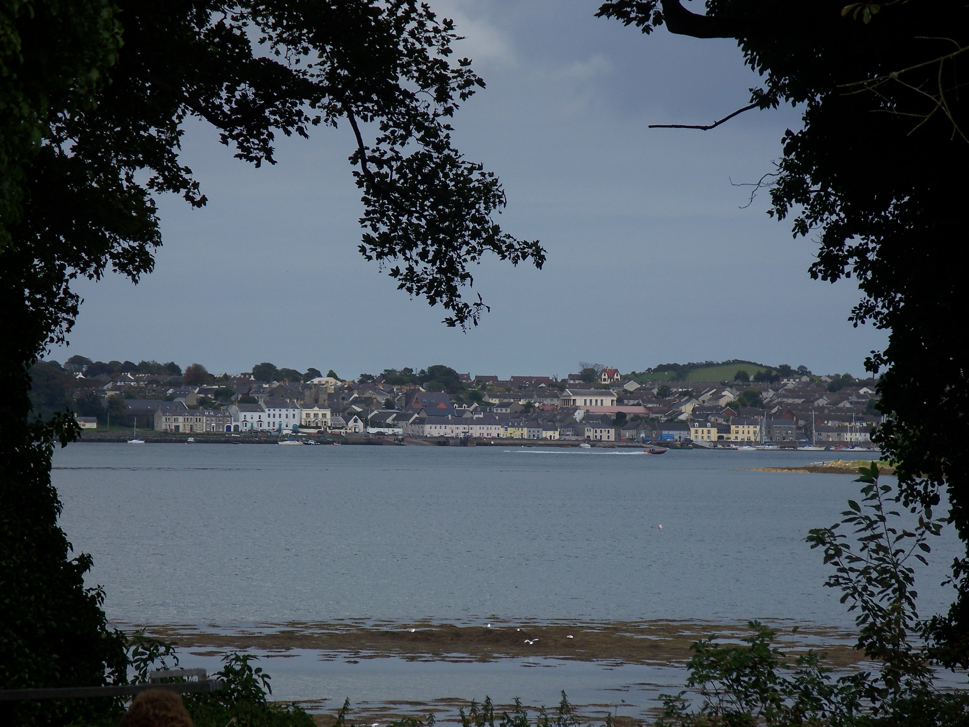 taken by myself, user:lofty